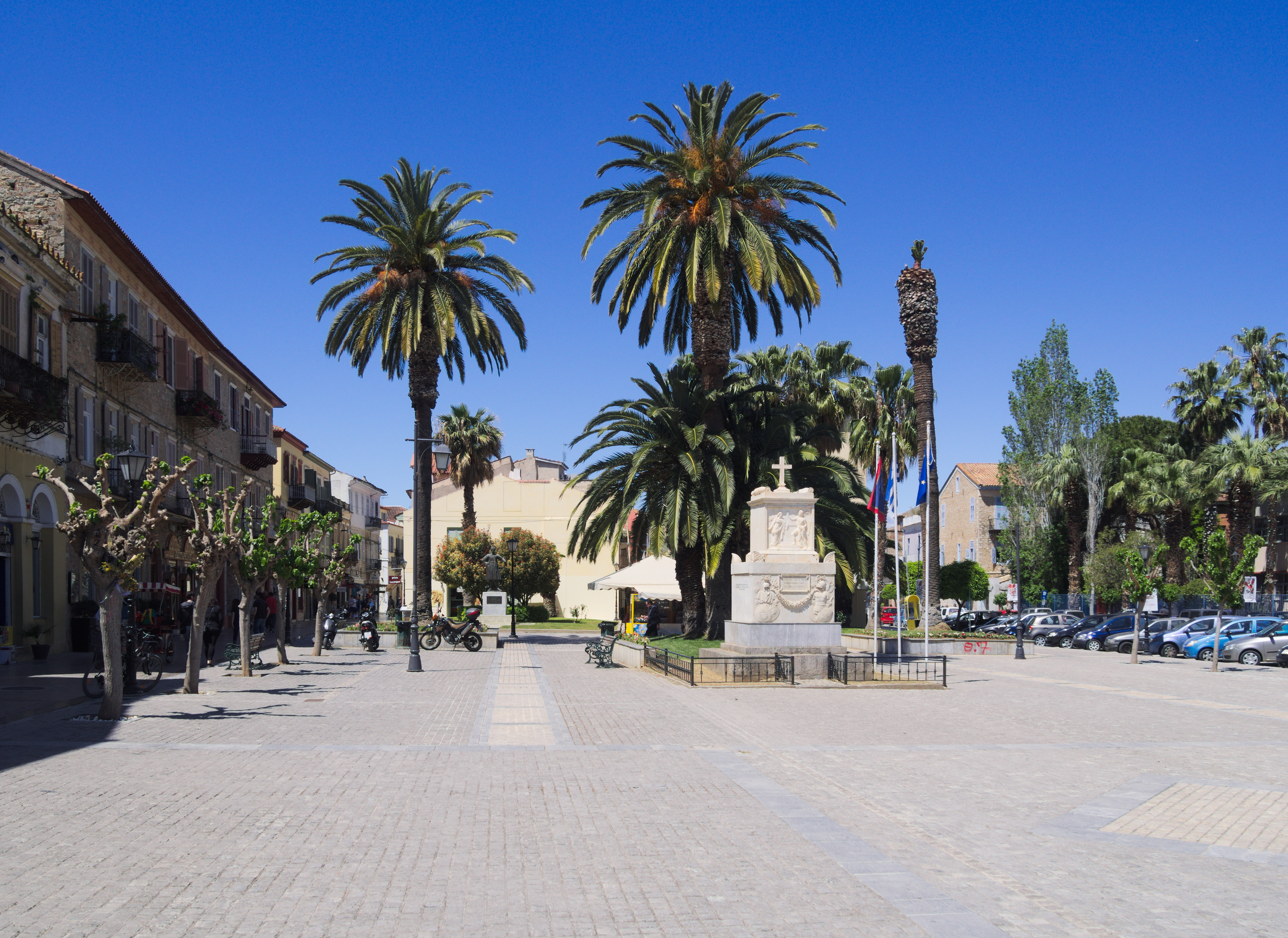 Trion Navarchon (Three Admirals) square at Nafplion, with the funerary monument of Dimitrios Ypsilantis. Behind it (where today is the statue of Otto) was the goverment's residense (built in 1829, destroyed in fire in 1929.